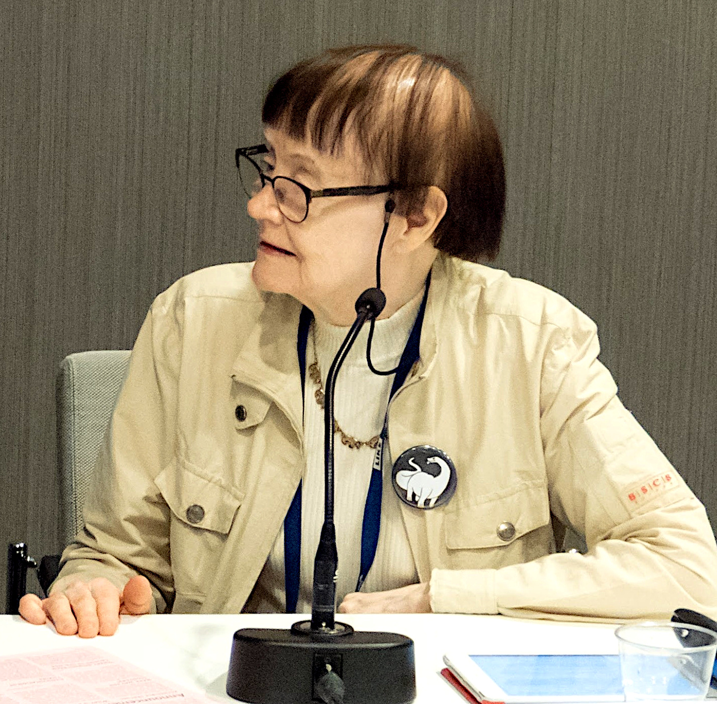 World Science Fiction Convention in Helsinki, 2017. Fandom Keeps You Young at Heart! Robert Silverberg, Gay Haldeman and Liisa Rantalaiho